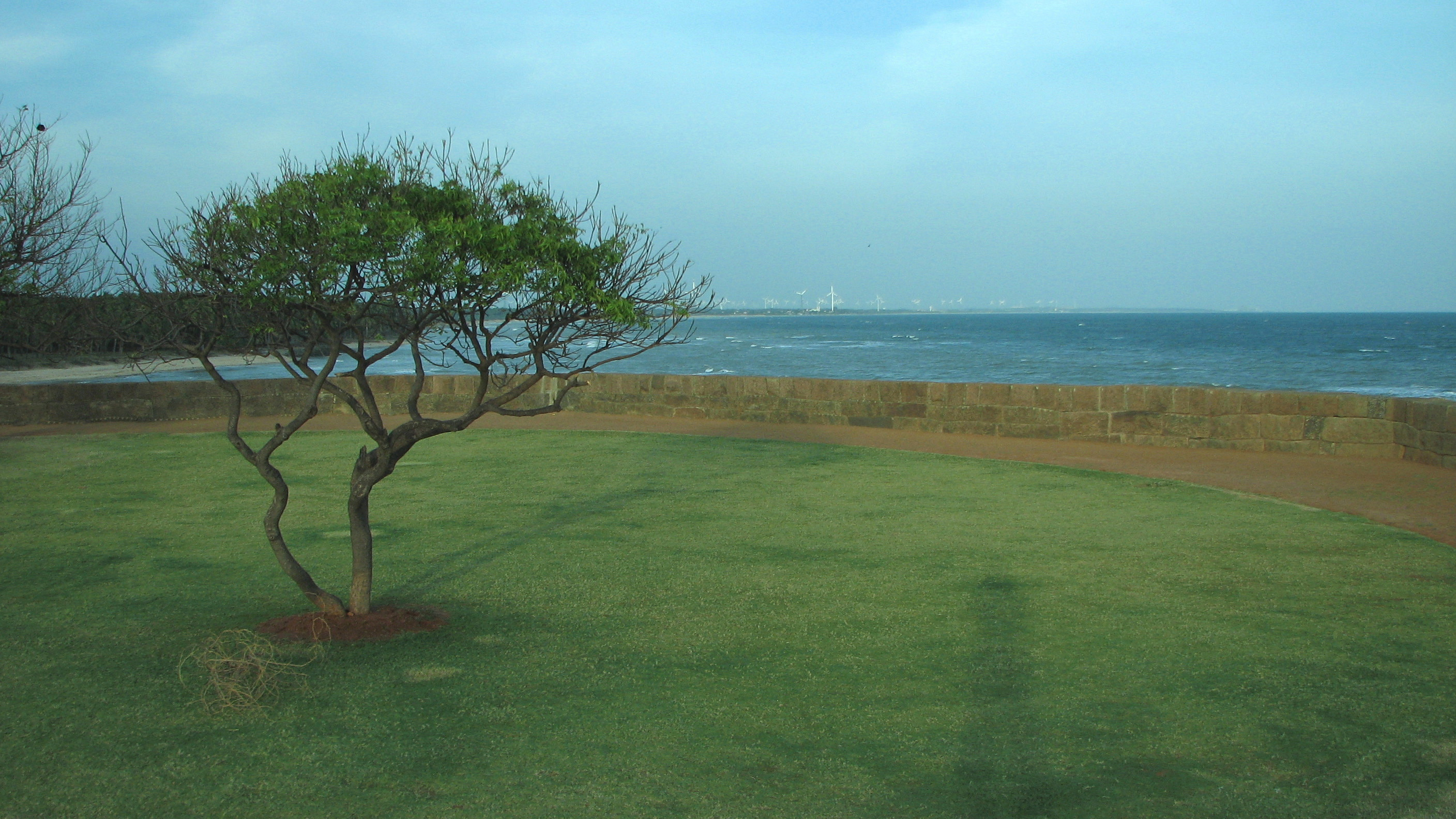 self-made image ; Author's Name : Infocaster